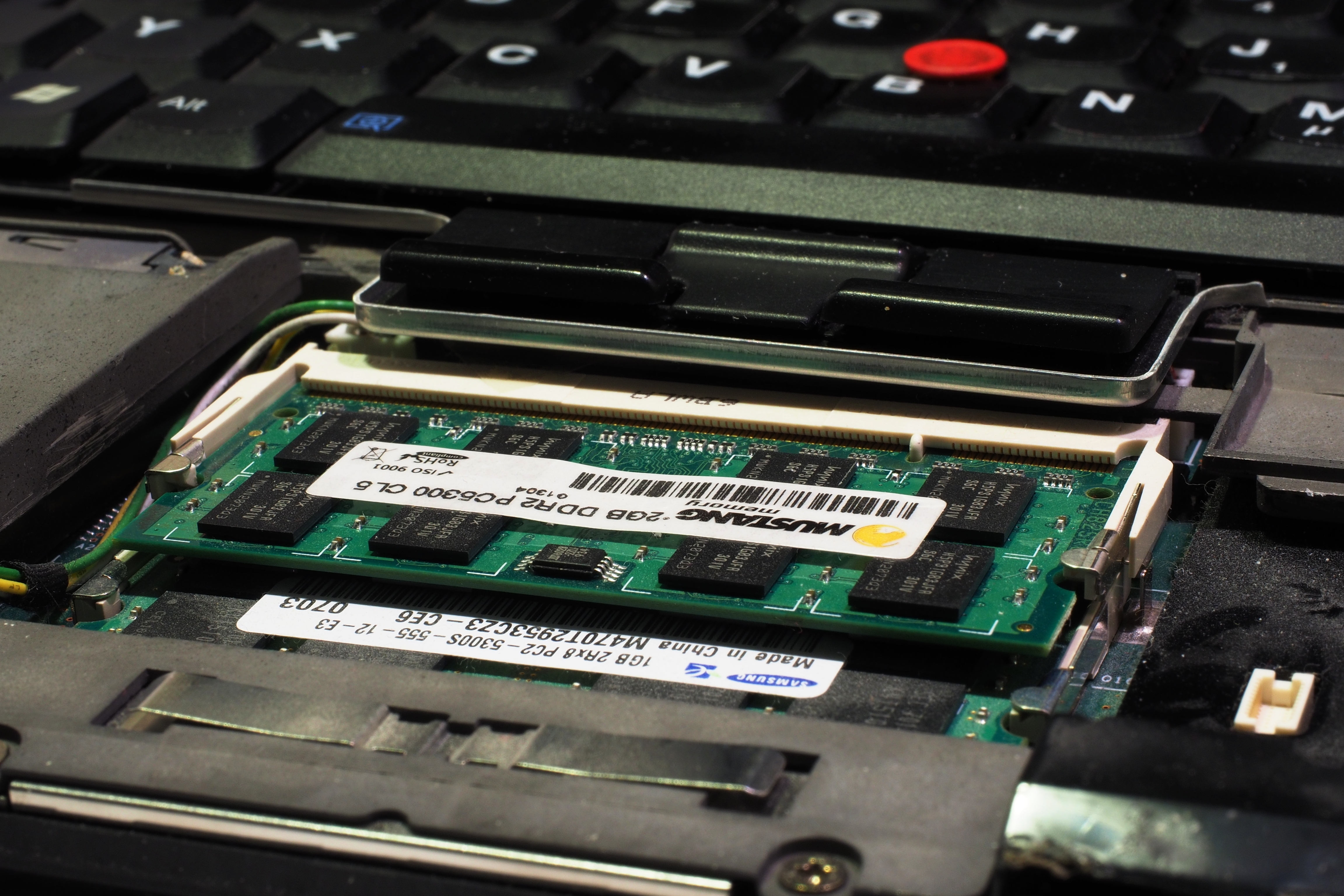 Two different DDR2 SDRAM 200-pin SO-DIMM modules ready to use in a Lenovo Thinkpad T60